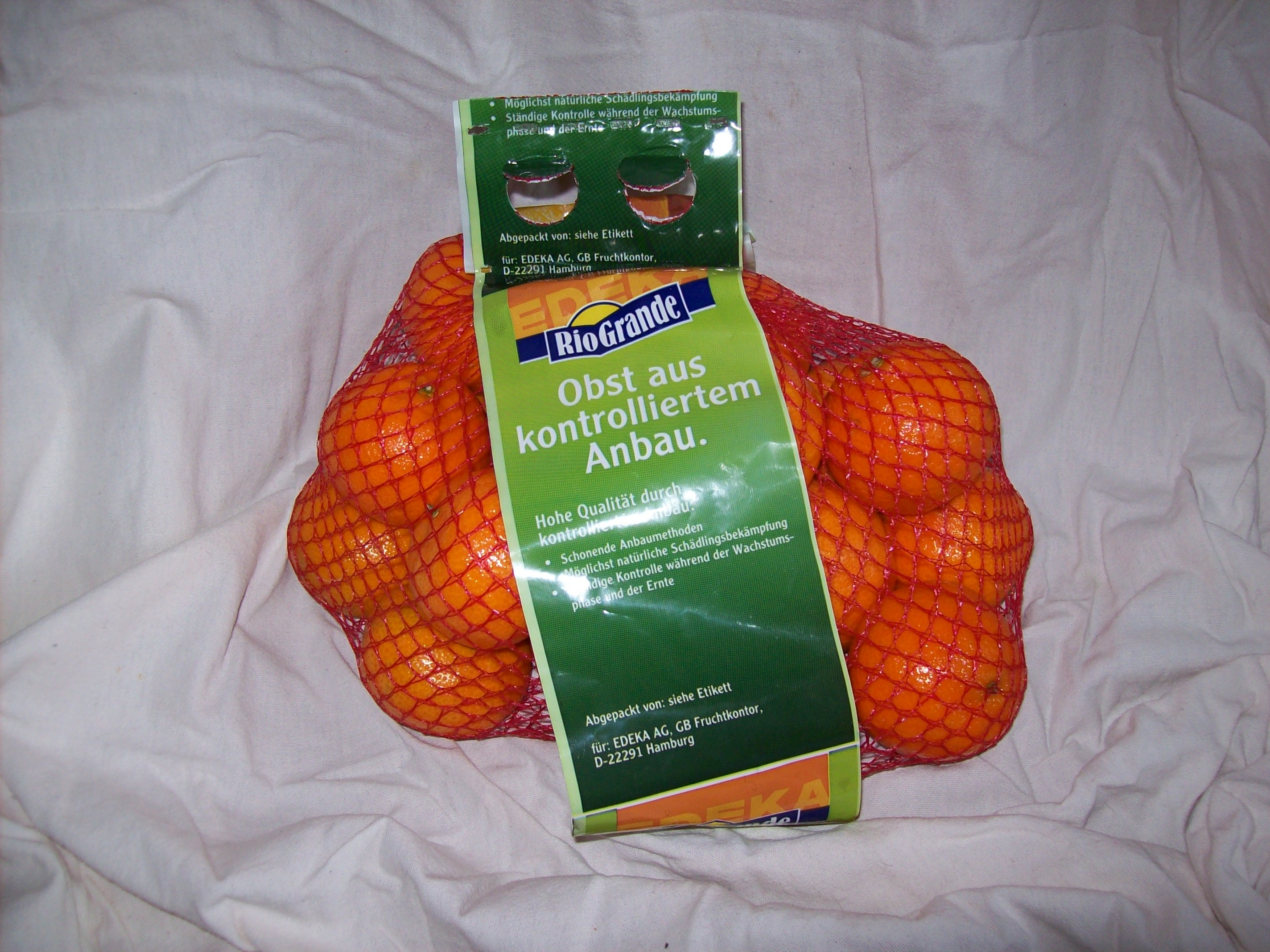 A girsack filled with clementines